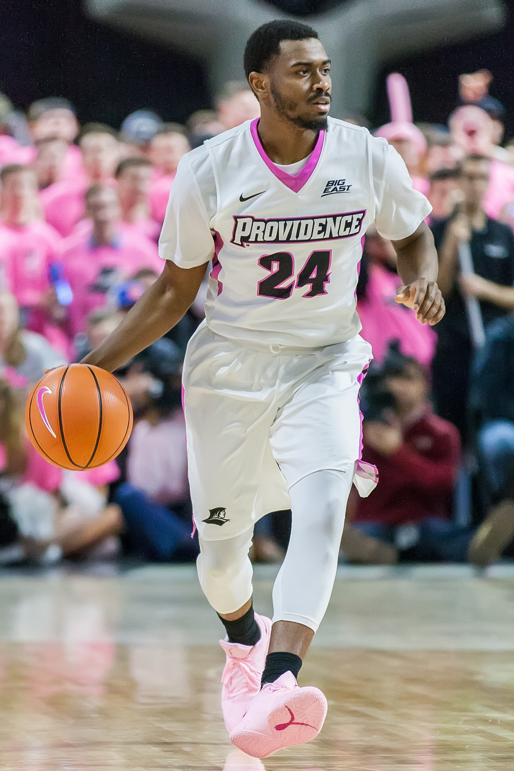 February 14, 2018. Dunkin' Donuts Center, Providence, RI.